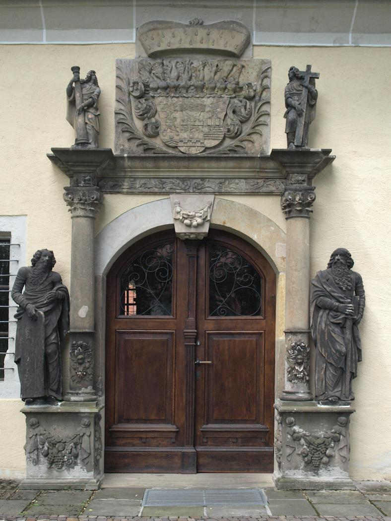 Meissen, Saxony (Germany), church St. Afra, Entrance, photo 2012